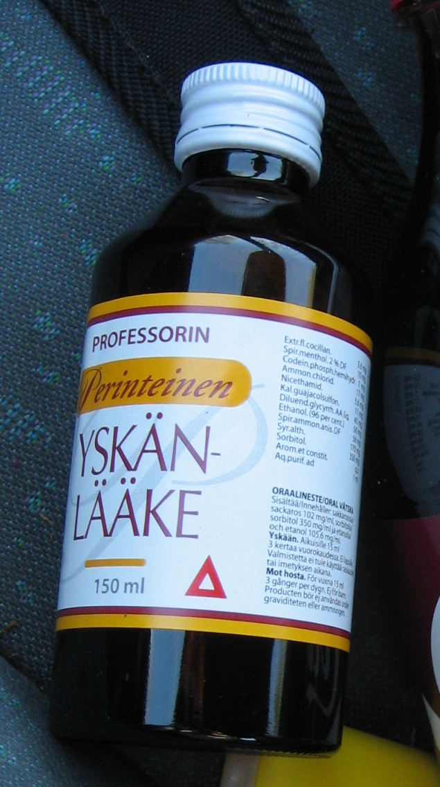 Finnish codeine based coug syrup.